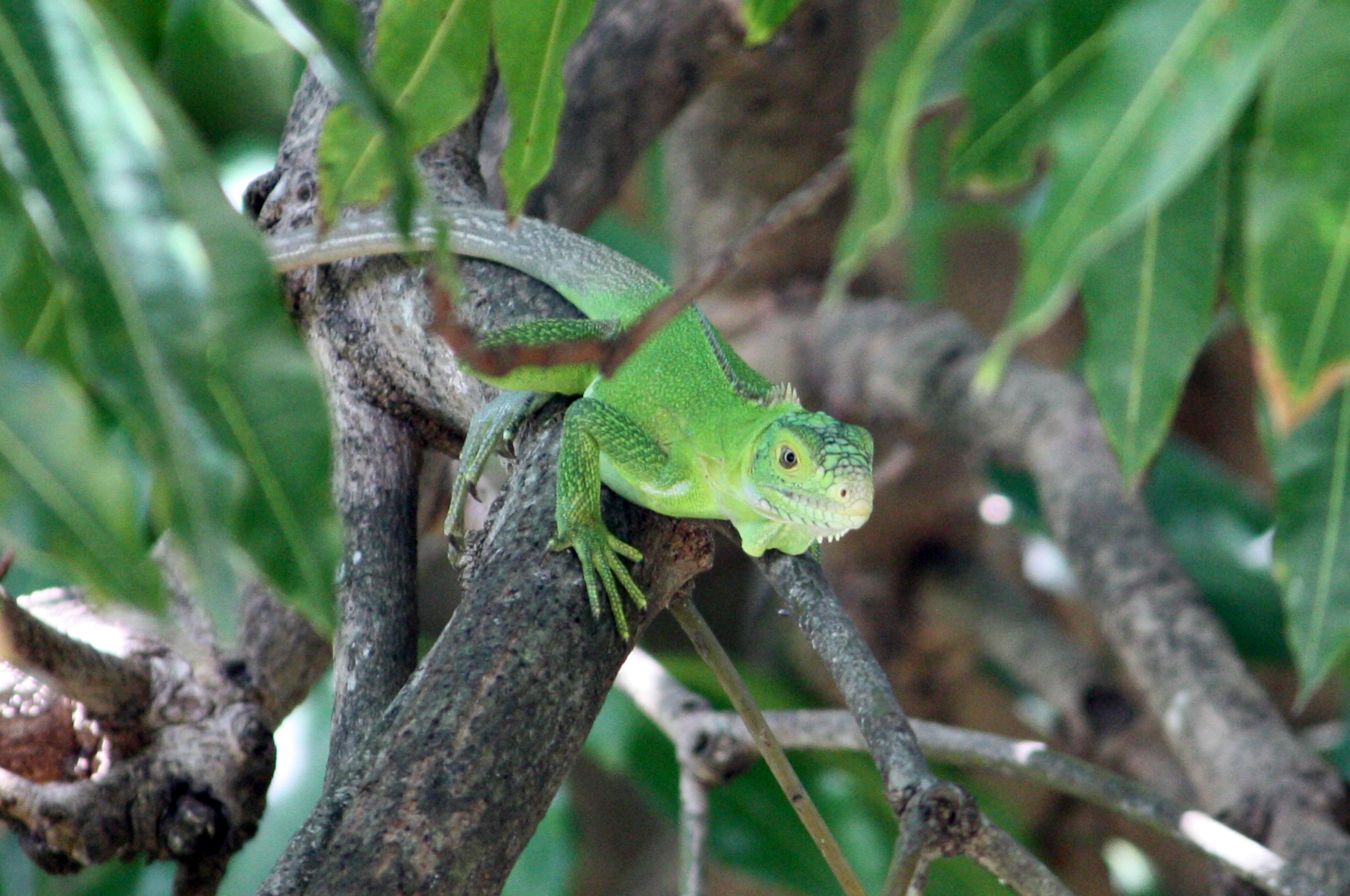 Lesser Antillean Iguana (Iguana delicatissima); juvenile in a mango tree. Coulibistrie, Dominica.